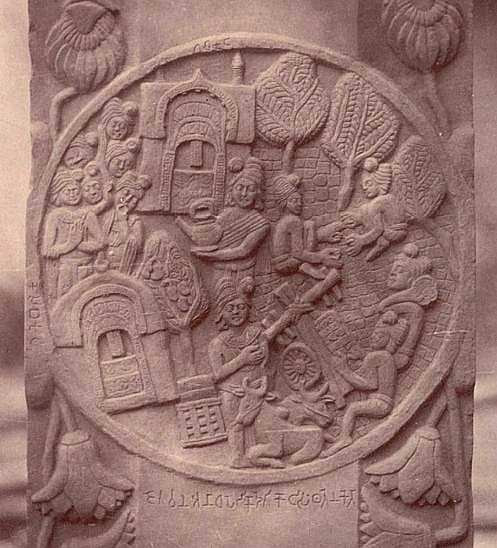 Bharhut schulpture - donation of Anathapindaka